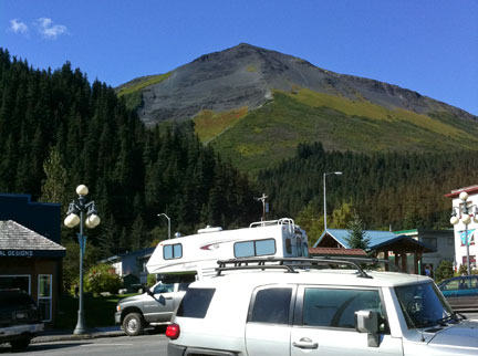 Mount Marathon in September 2011